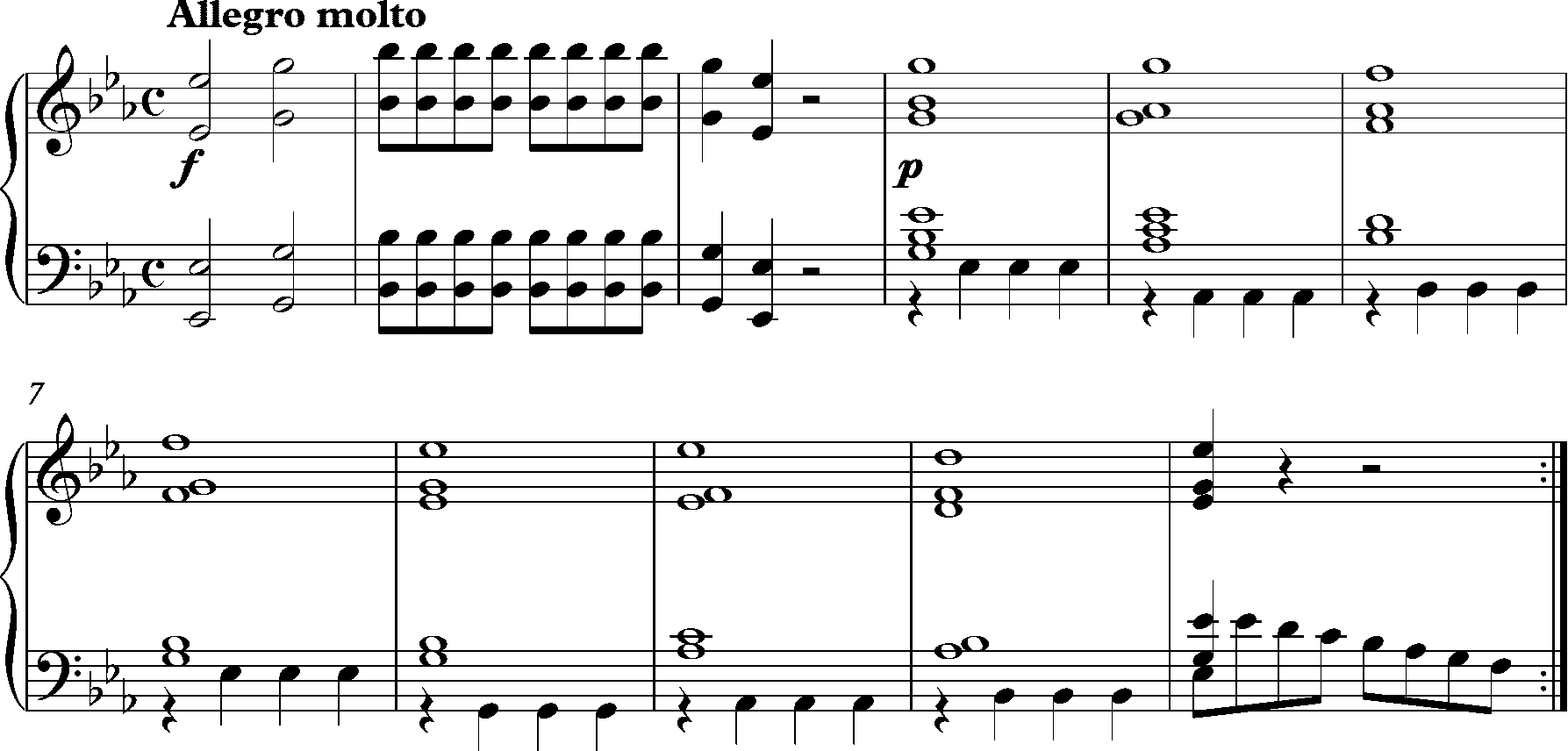 Mozart, Symphony No. 1, K16 opening bars